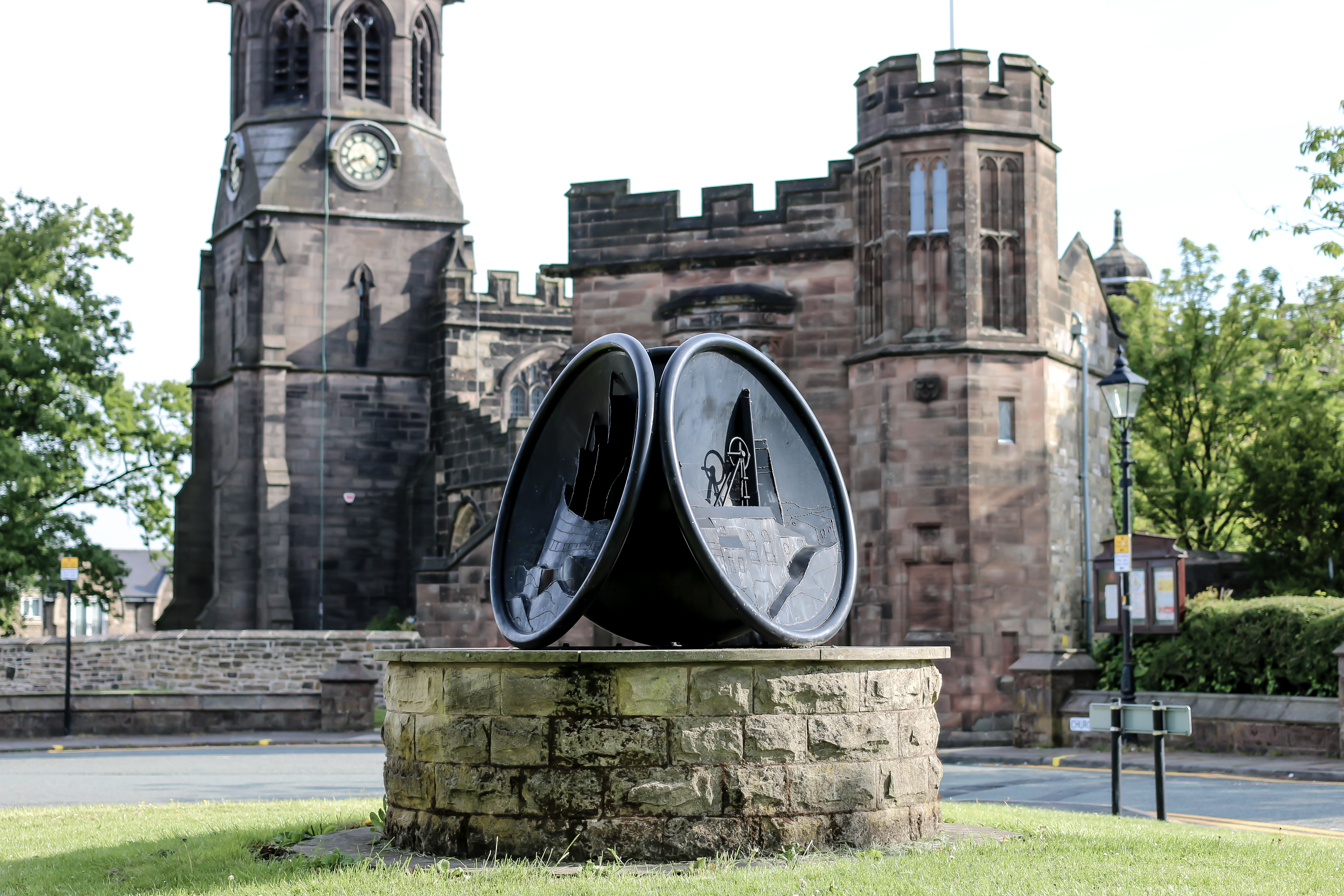 The discs in front of St Wilfrids Church in the centre of the village of Standish.